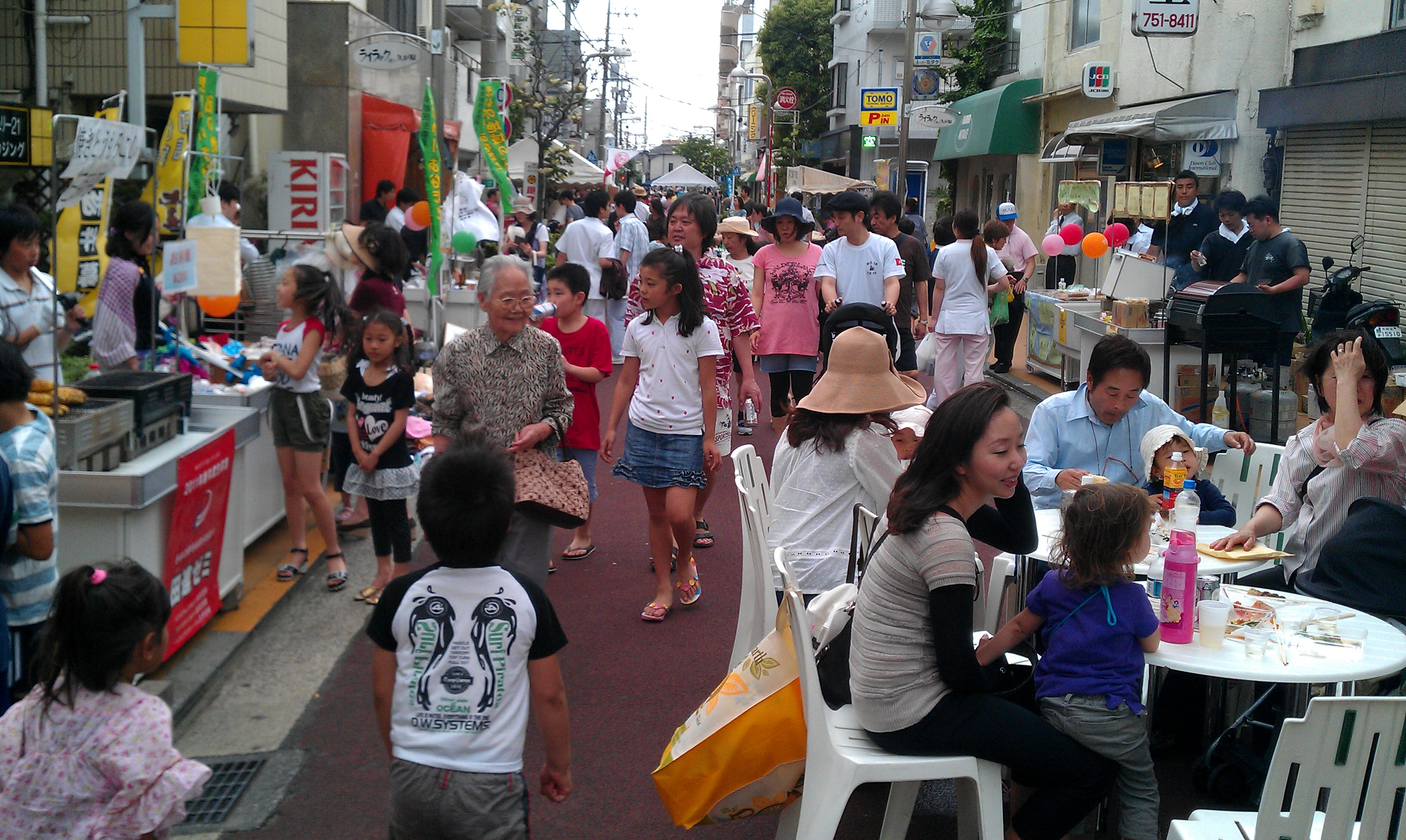 Annual street fair Kugahara Main Street